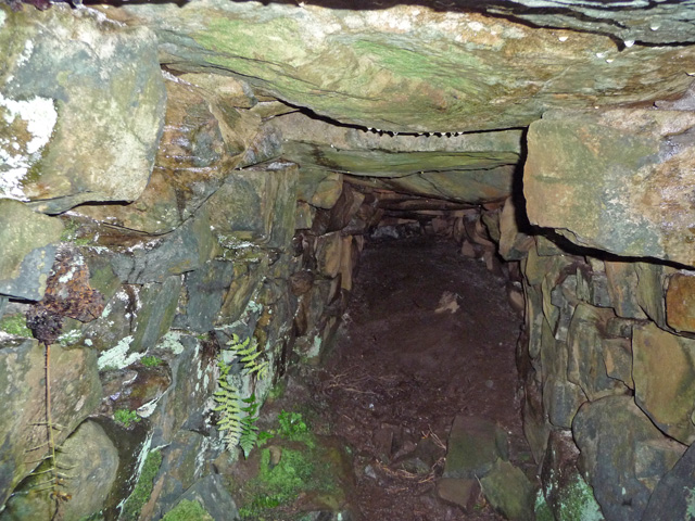 The Knock Ullinish Souterrain is a good example of a souterrain or earth house, located at the foot of Knock Ullinish. The passageway is about 6m long to the point where there has been a collapse of the roof. The first section, seen here, is just over 1m in height and just under 1m wide. It gets considerably wider further along the passageway.